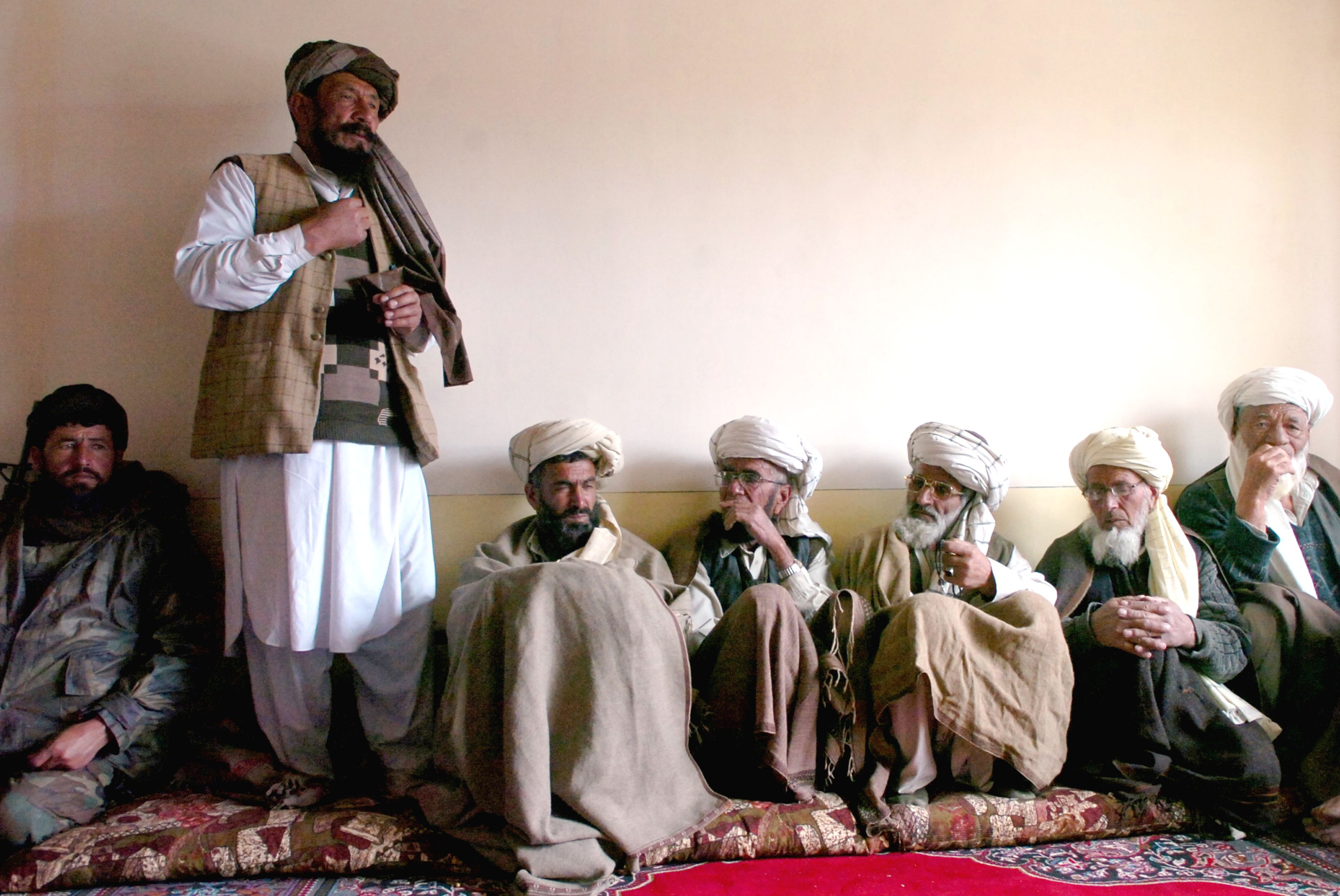 Elders from the village of Kalagu in the Zormat district of eastern Afghanistan’s Paktia province discuss concerns they have with the establishment of Combat Outpost Kalagu with Afghan soldiers and their U.S. counterparts.